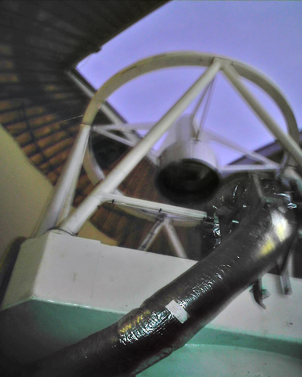 Borka Plumpster, Inside as the Hiltner opens